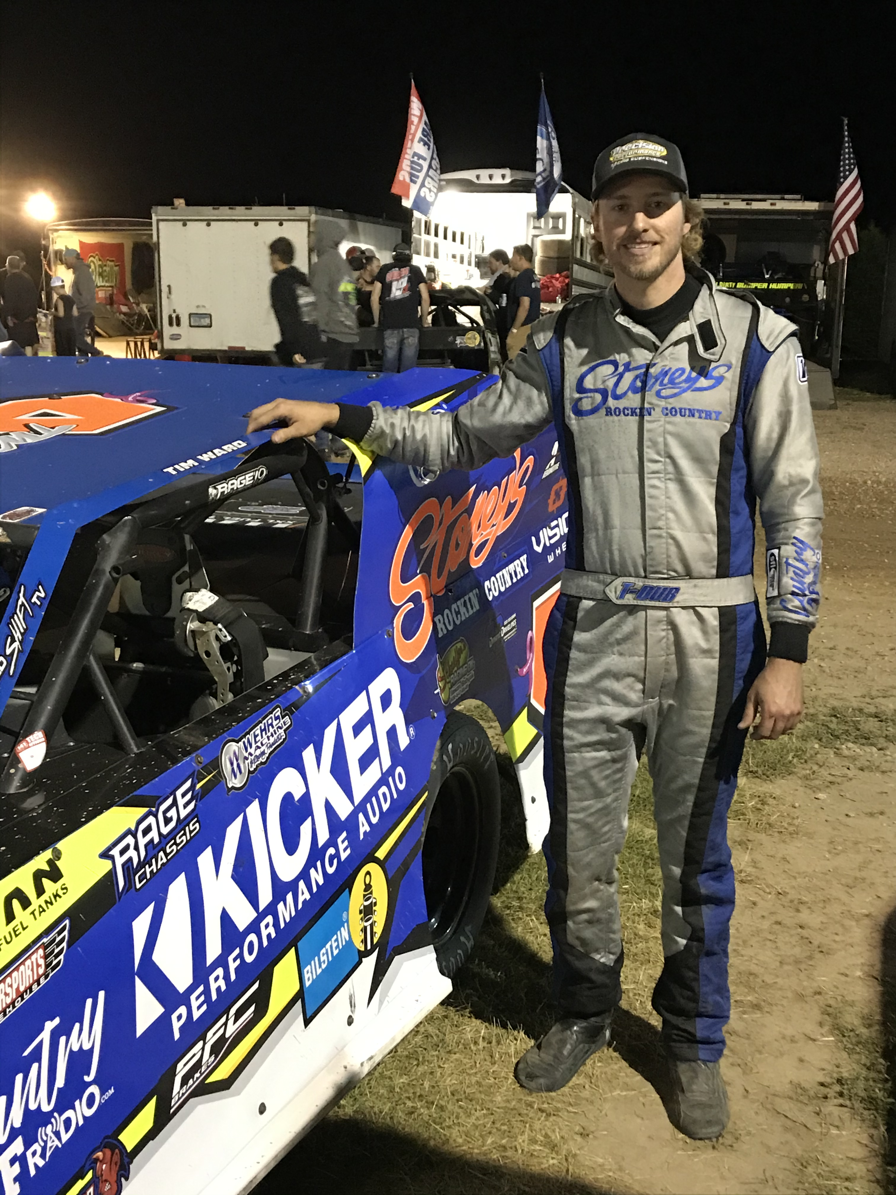 IMCA Modified driver Tim Ward poses by his car after qualifying night of the 2020 Clash at the Creek at 141 Speedway in Francis Creek, Wisconsin on June 17, 2020.